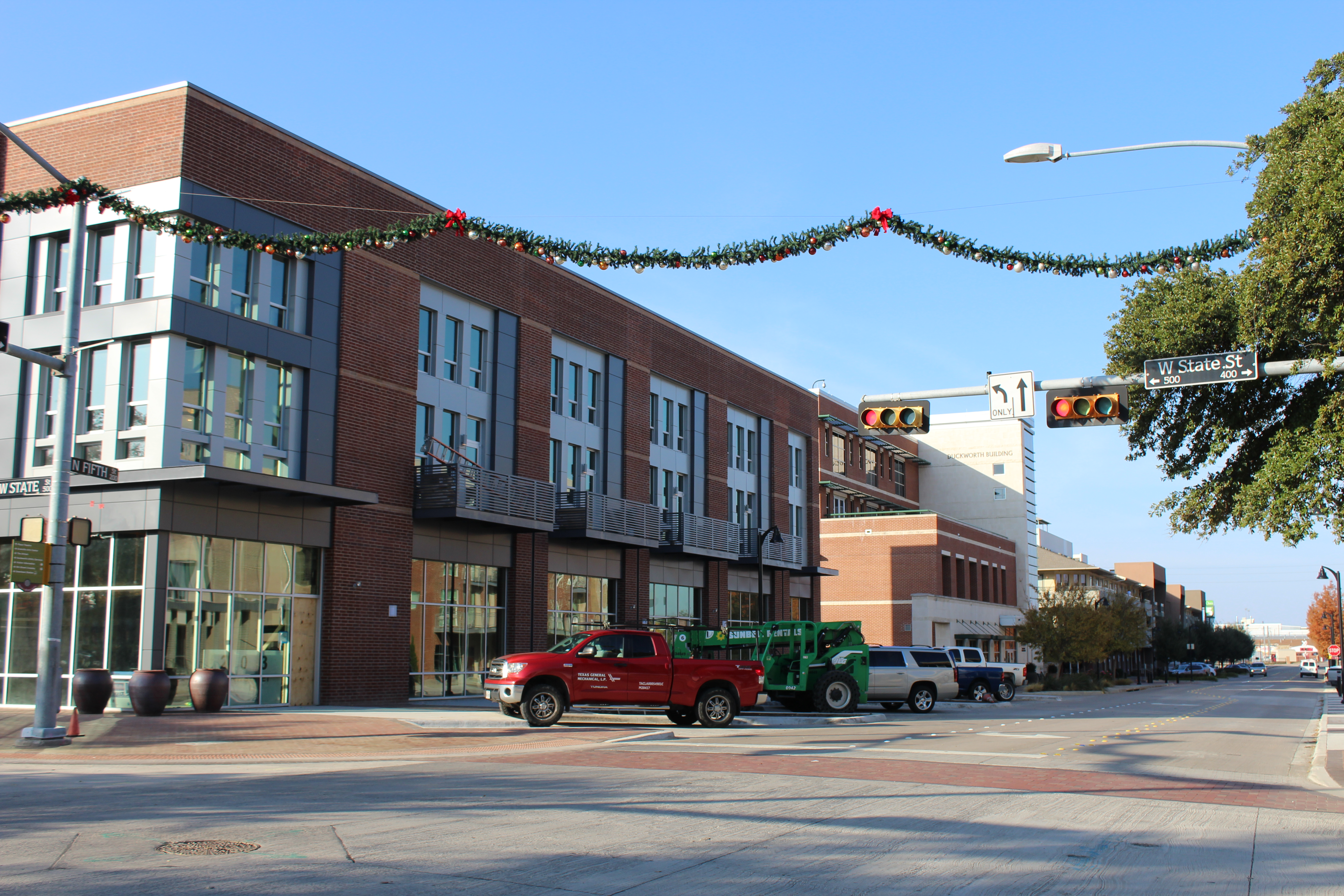 State & 5th Street in Downtown